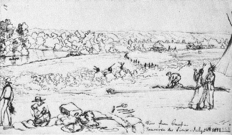 View from Camp, Traverse des Sioux, Minnesota Territory